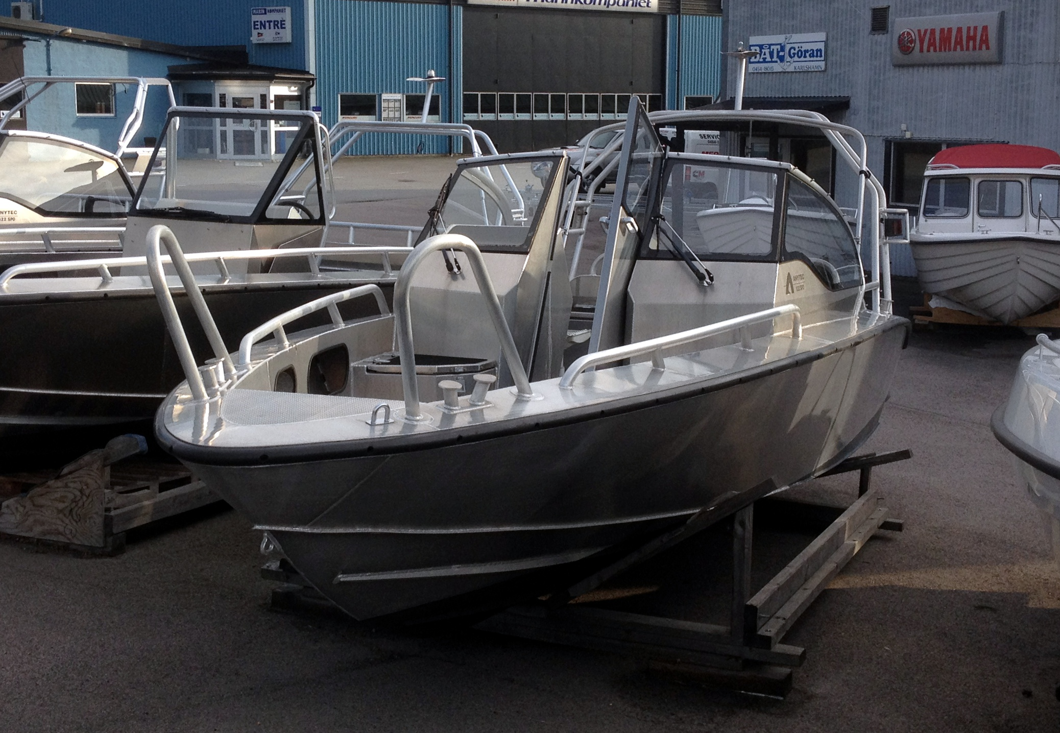 Anytec aluminium boats